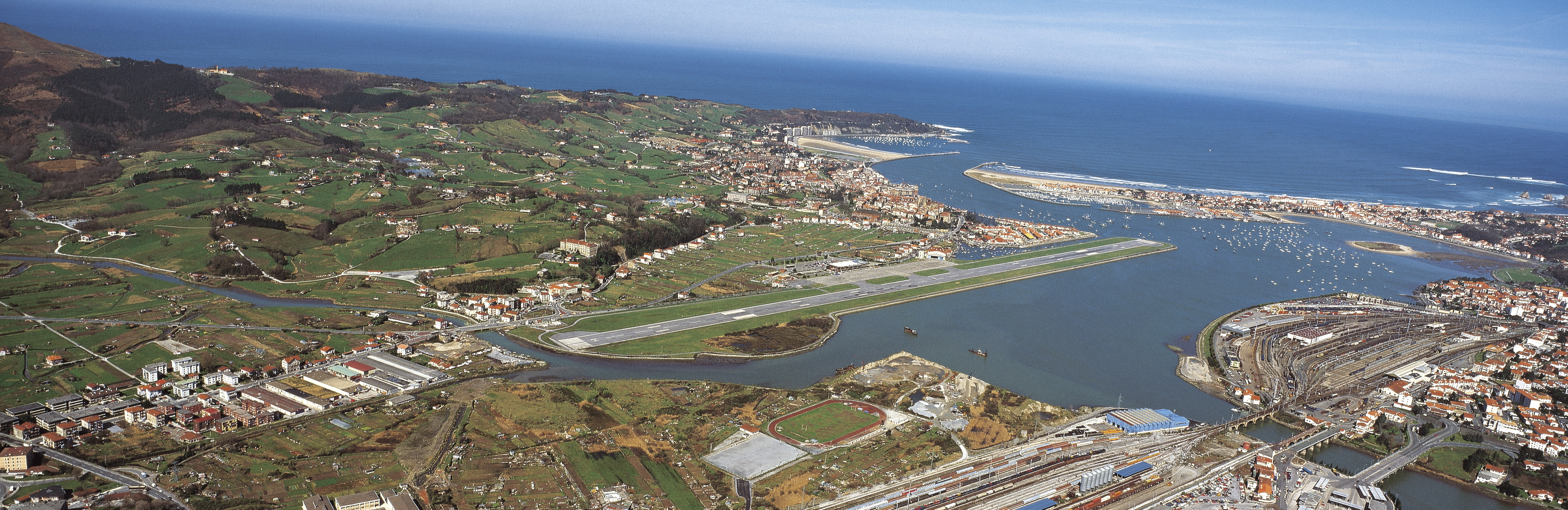 Txingudi: Hondarribia and Hendaia, Gipuzkoa and Lapurdi, Basque Country